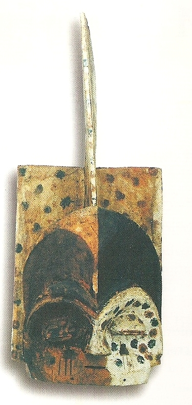 Emboli gabonese traditional mask from the Ikota ethny